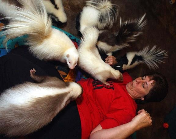 Deborah Cipriani is playfully attacked by skunks wanting attention and affection, in the living room of her home in North Ridgeville, Ohio, Wednesday Nov. 13, 2002. The skunks are used by her as educational skunks, to show the different colors of skunks. Cipriani uses her home to rescue and rehabilitate pet skunks from people who no longer want to care for them, and has over two dozen skunks in her house. She also educates people and groups about owning and caring for skunks. (AP Photo/The Morning Journal, Paul M. Walsh)